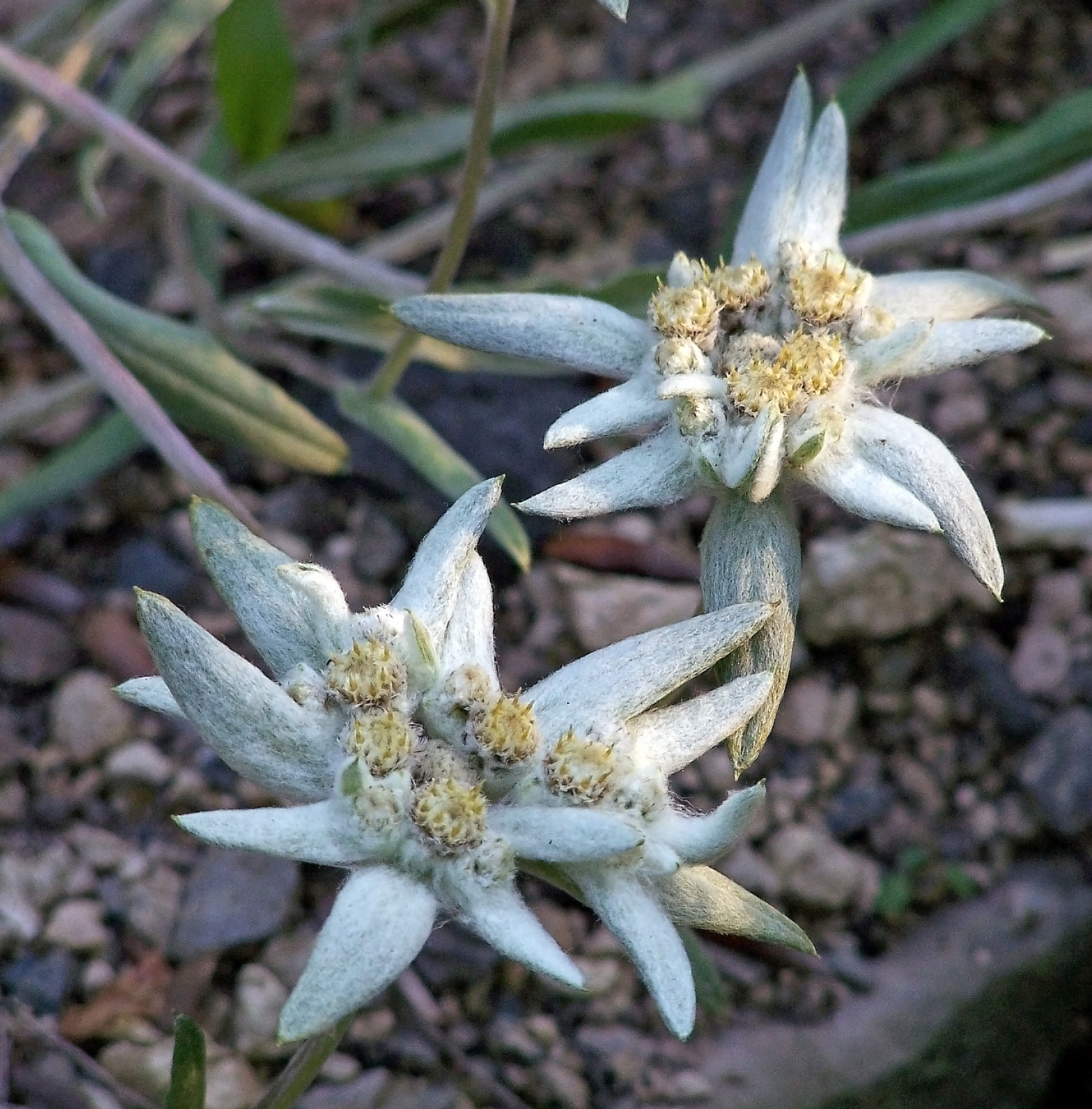 Latin Name: Leontopodium calocephalum (Franchet) Beauverd, Bull. Soc. Bot. Genève ser. 2, 1: 189. 1909. Common Name: Edelweiss. Distribution range: south-central China, Tibet.